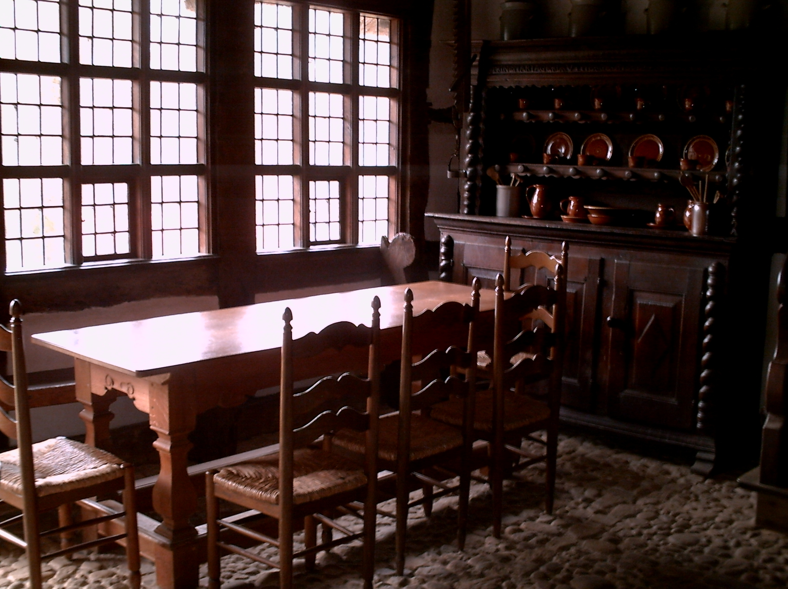 Westfälisches Freilichtmuseum in Detmold / Germany